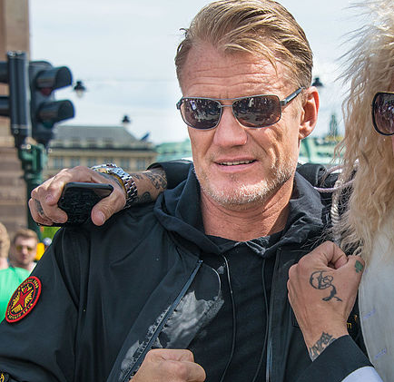 Actor Dolph Lundgren in 2015, in Stockholm, Sweden.